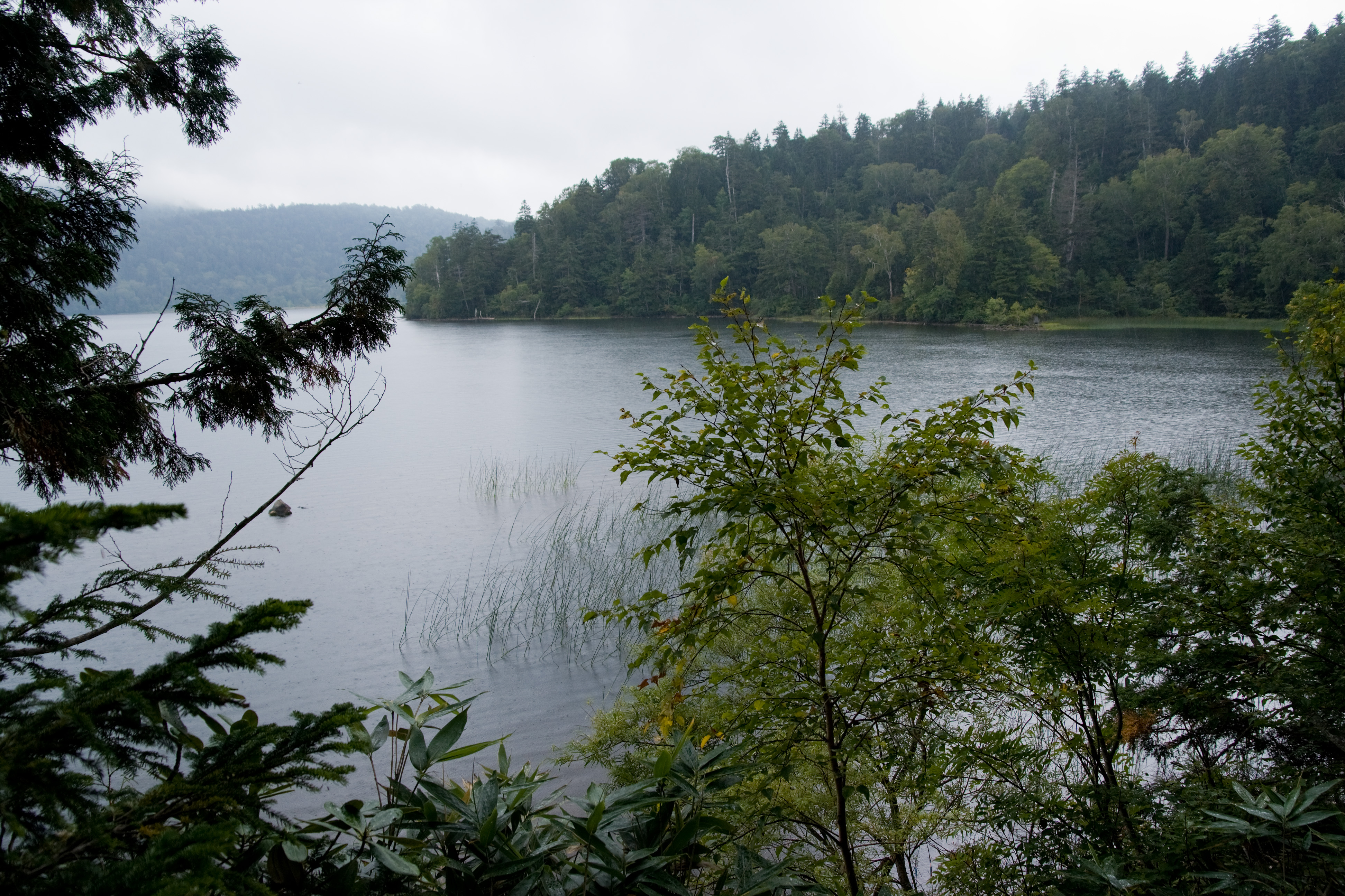 Oze-numa Marsh (Oze-numa 尾瀬沼), Katashina Vill., Gunma Pref., Japan